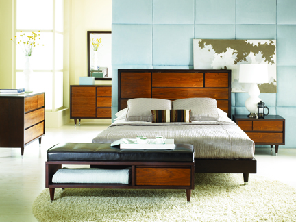 Picture of a Sitcom Furniture bedroom set that won an international design award.